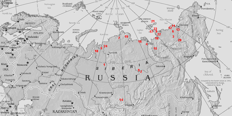 Places where Mammoth and Wolly Rhinos have been found (from Digby: The Mammoth)